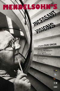 Movie poster Mendelsohn's Incessant Visions